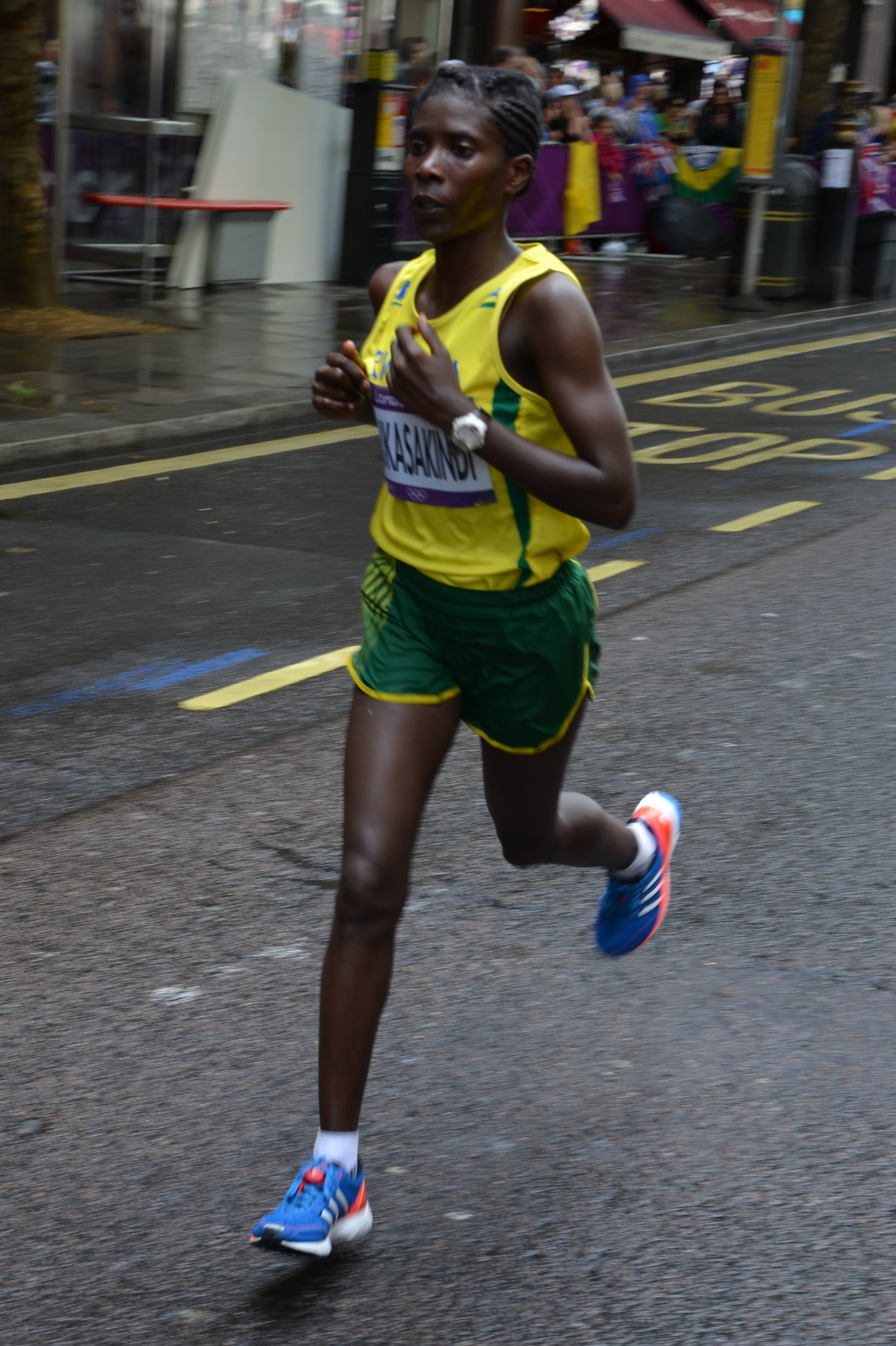 Claudette Mukasakindi (Rwanda) in the marathon (w) at the Olympic Games 2012